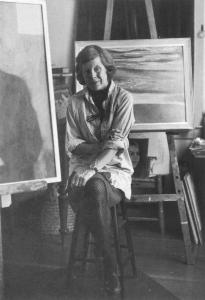 Betty Lane at work 196?